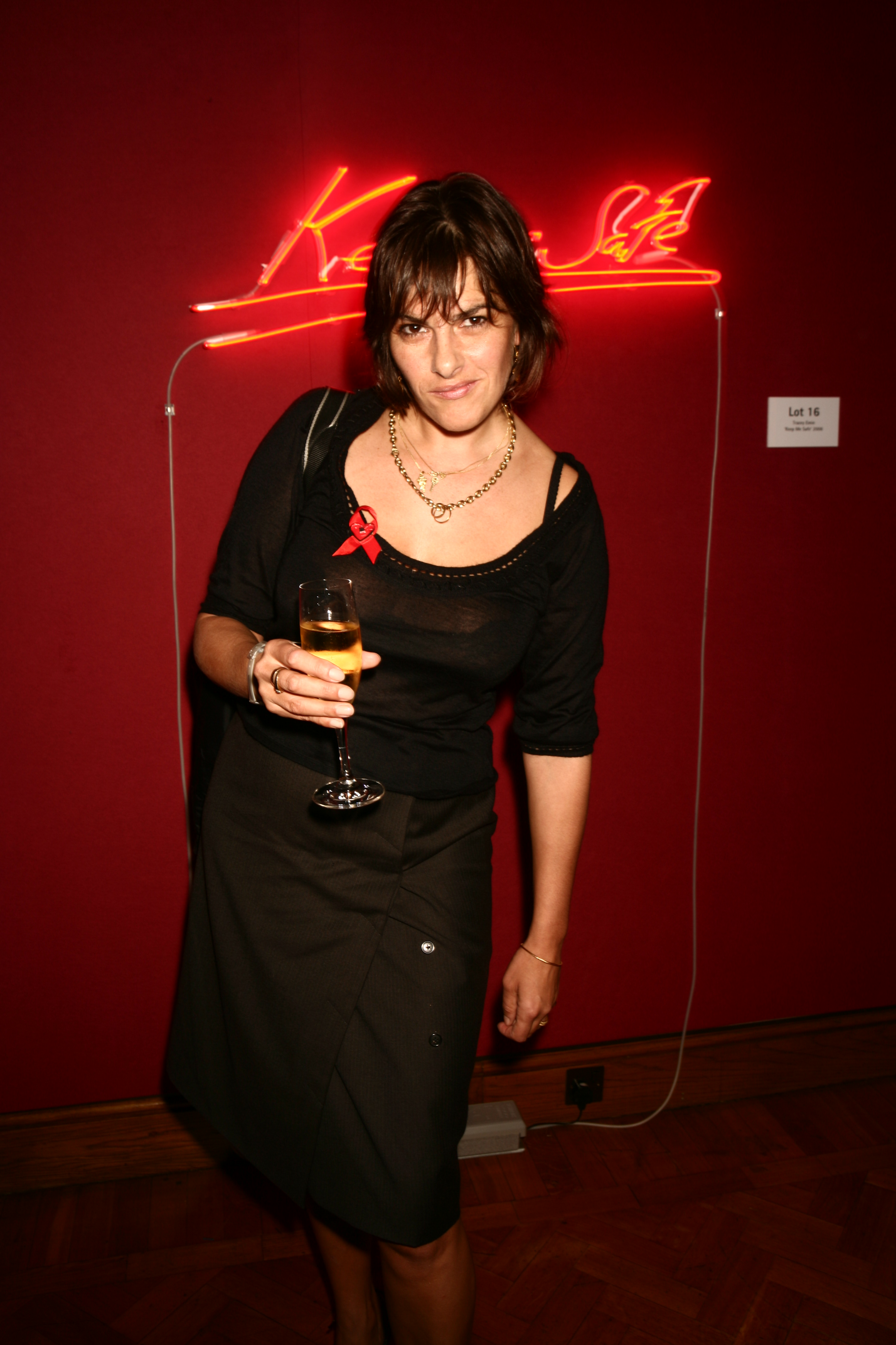 Tracey Emin Lighthouse Gala Auction in aid of Terrence Higgins Trust. Please attribute photo to Piers Allardyce